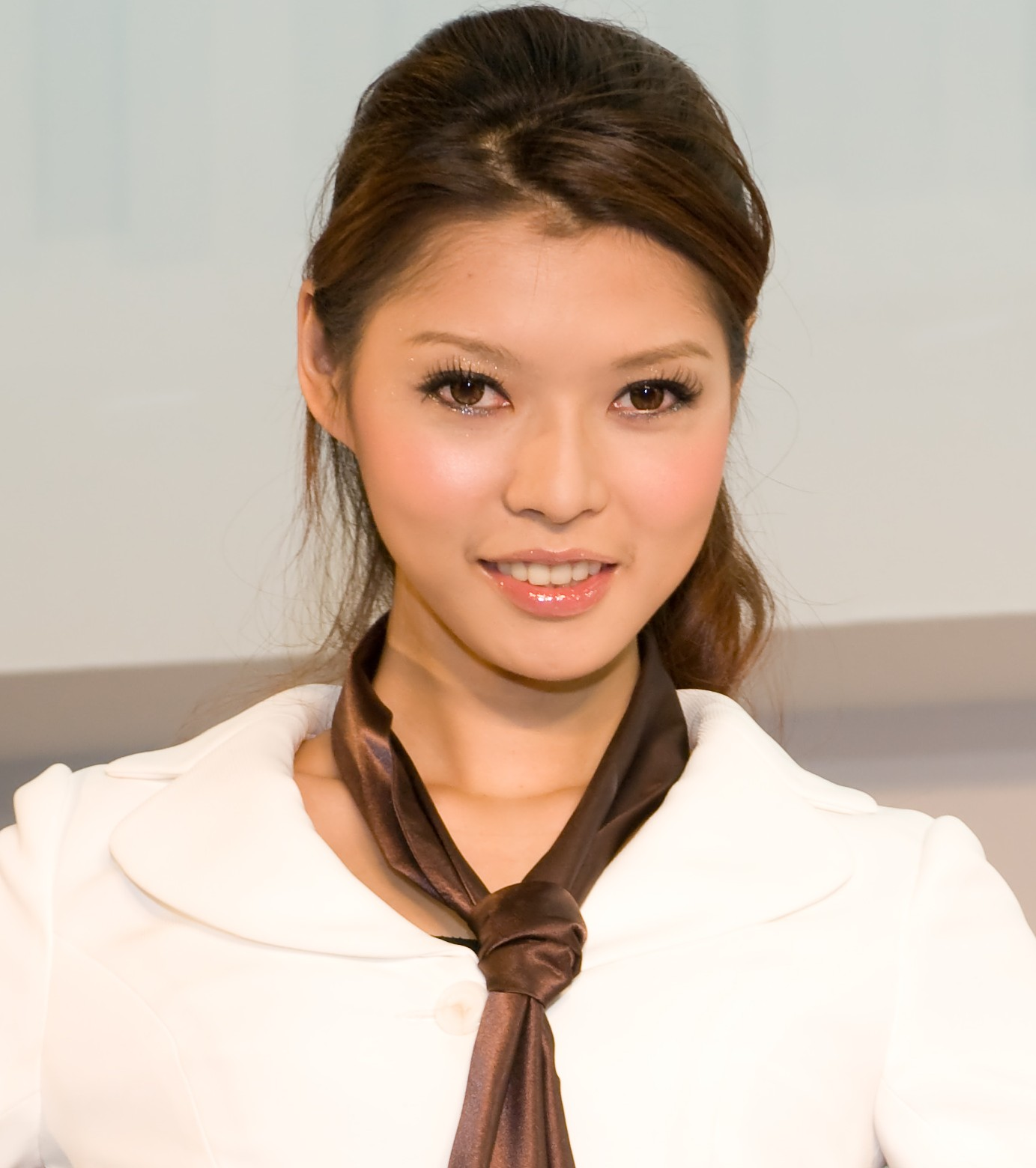 Yin Qi is a Taiwanese model.中文（中国大陆）: 殷琦是位台湾模特。